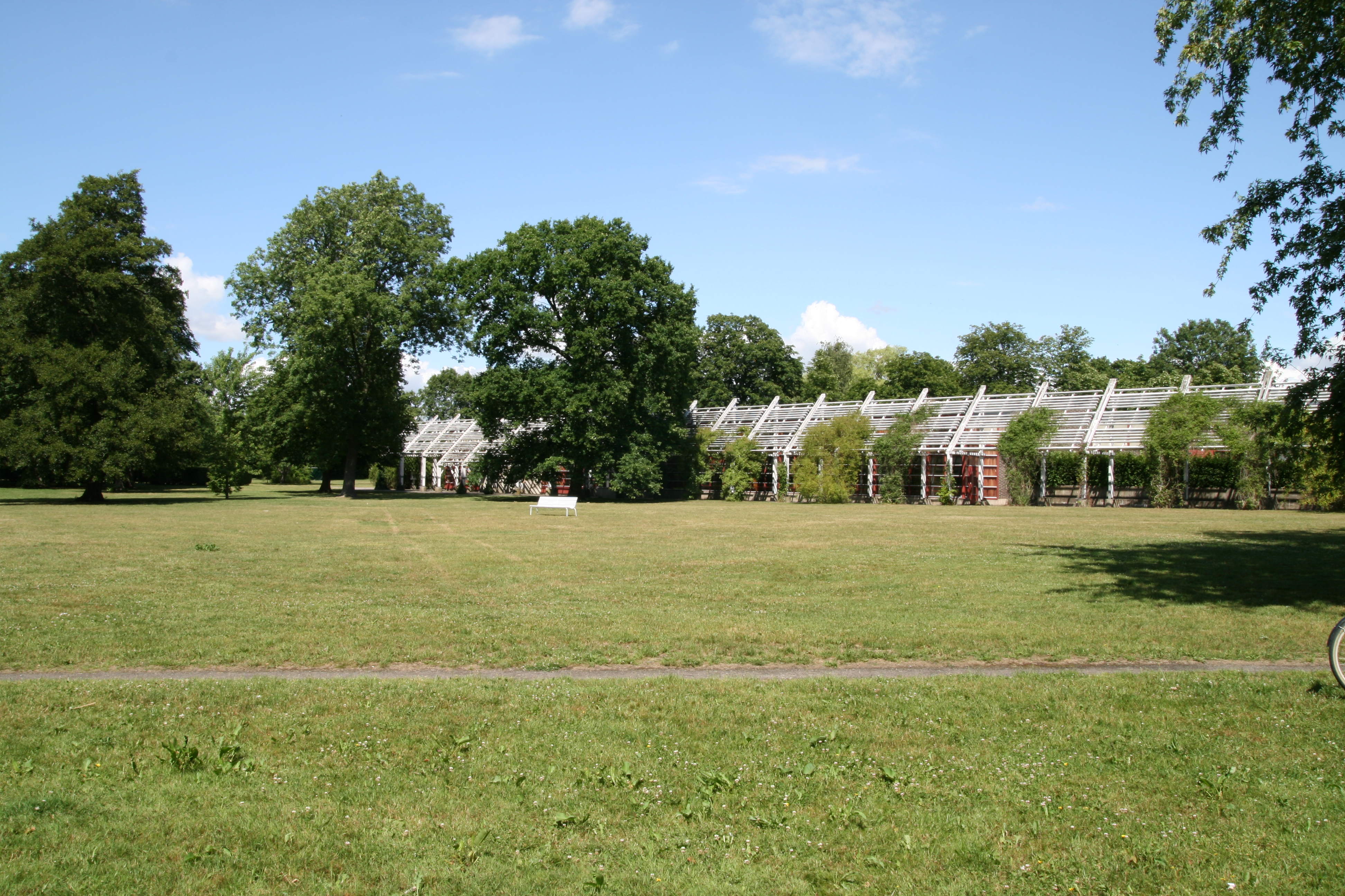 The Folkparken park and pavillion in Lund, Sweden.